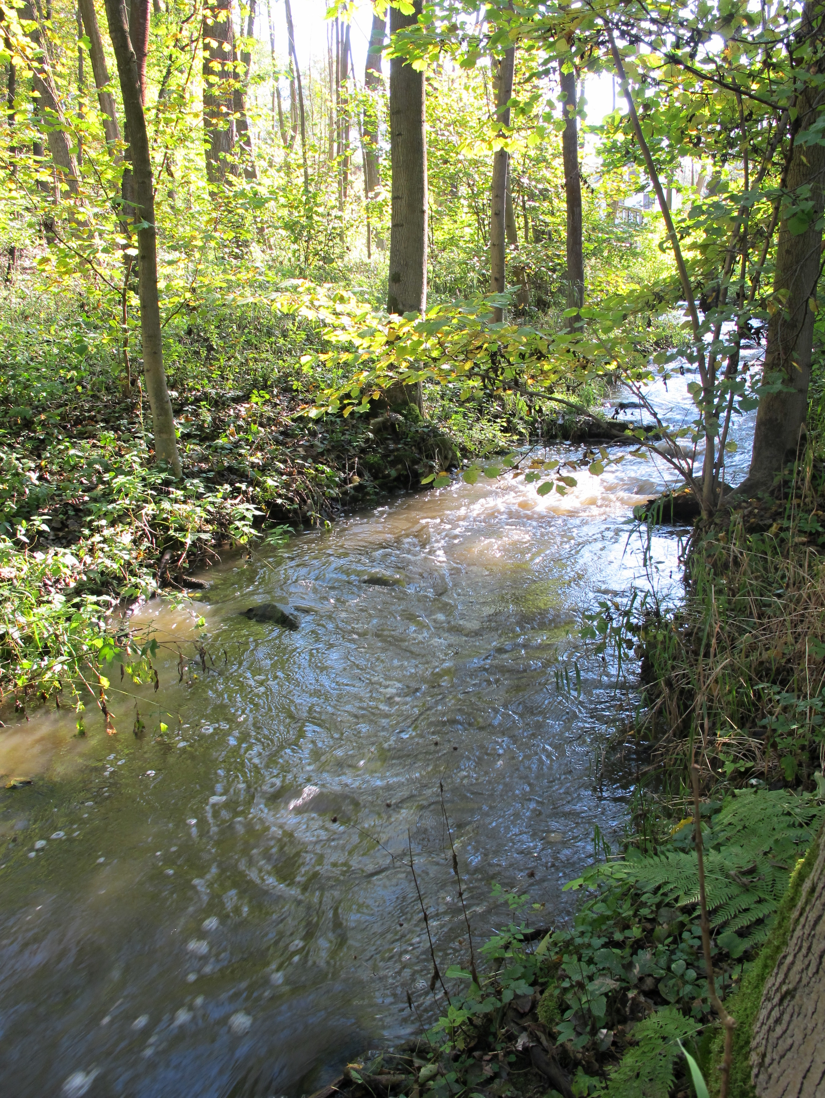 Natural monument Křečovický potok near Křečovice in Benešov District, Czech Republic Project: Chráněná území